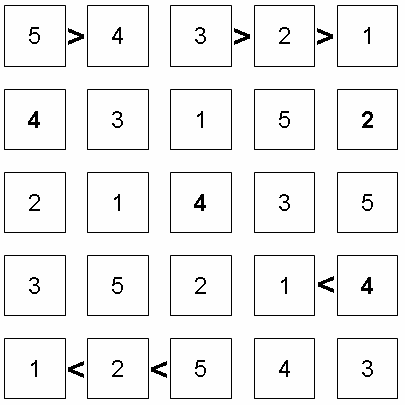 Solution to Futoshiki puzzle - see Futoshiki1 for puzzle